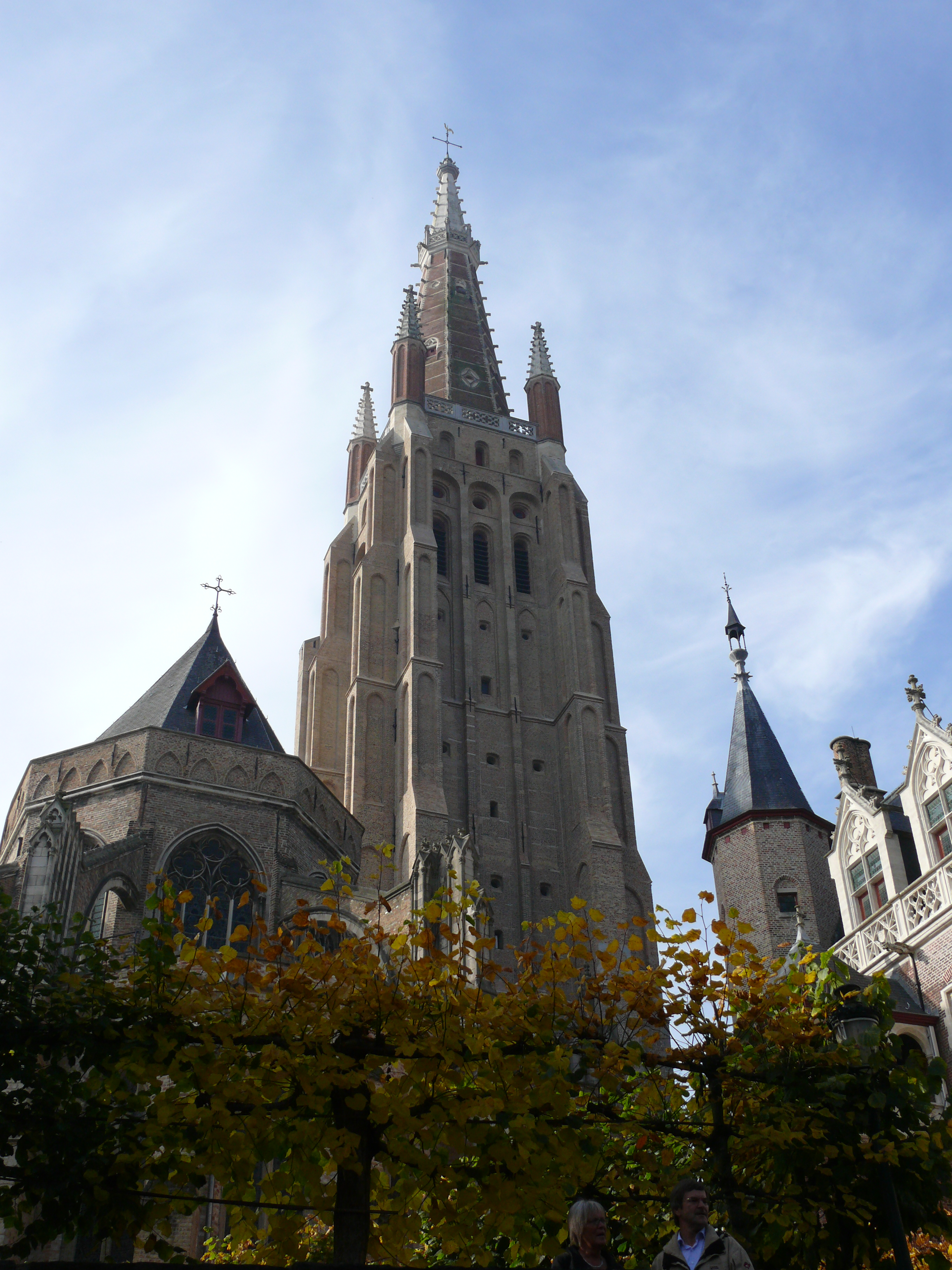 Church of Our Lady, Bruges in Bruges, Belgium, which dates mainly from the 13th, 14th and 15th centuries.